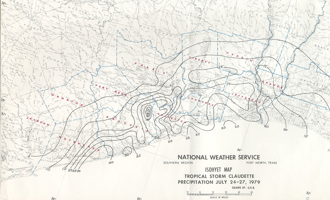 Isohyets in Texas and western Louisiana. July 24–27, 1979